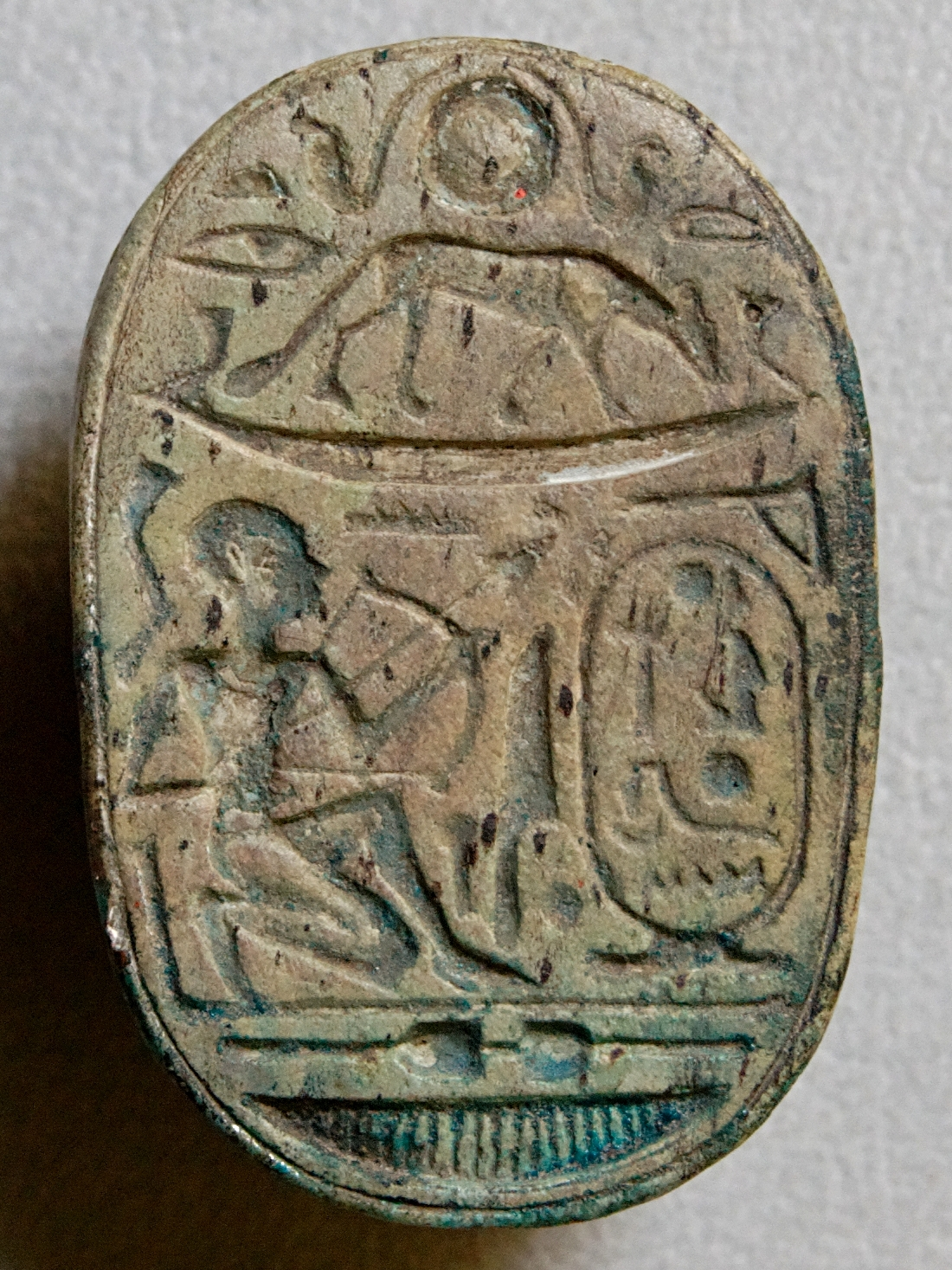 Scarab with the cartouche of Rameses II: Pharaoh firing bow.